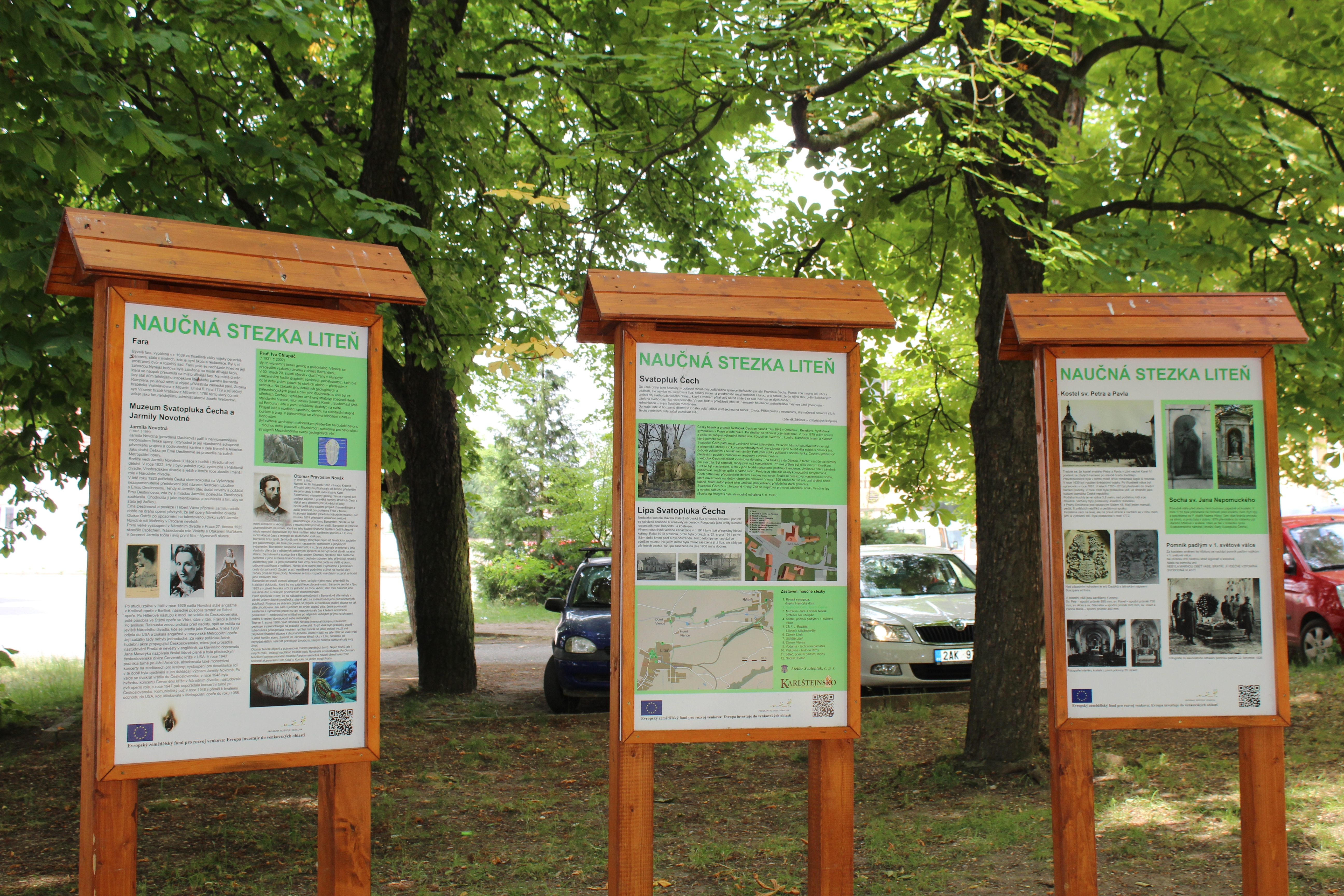 Educational trail Liteň